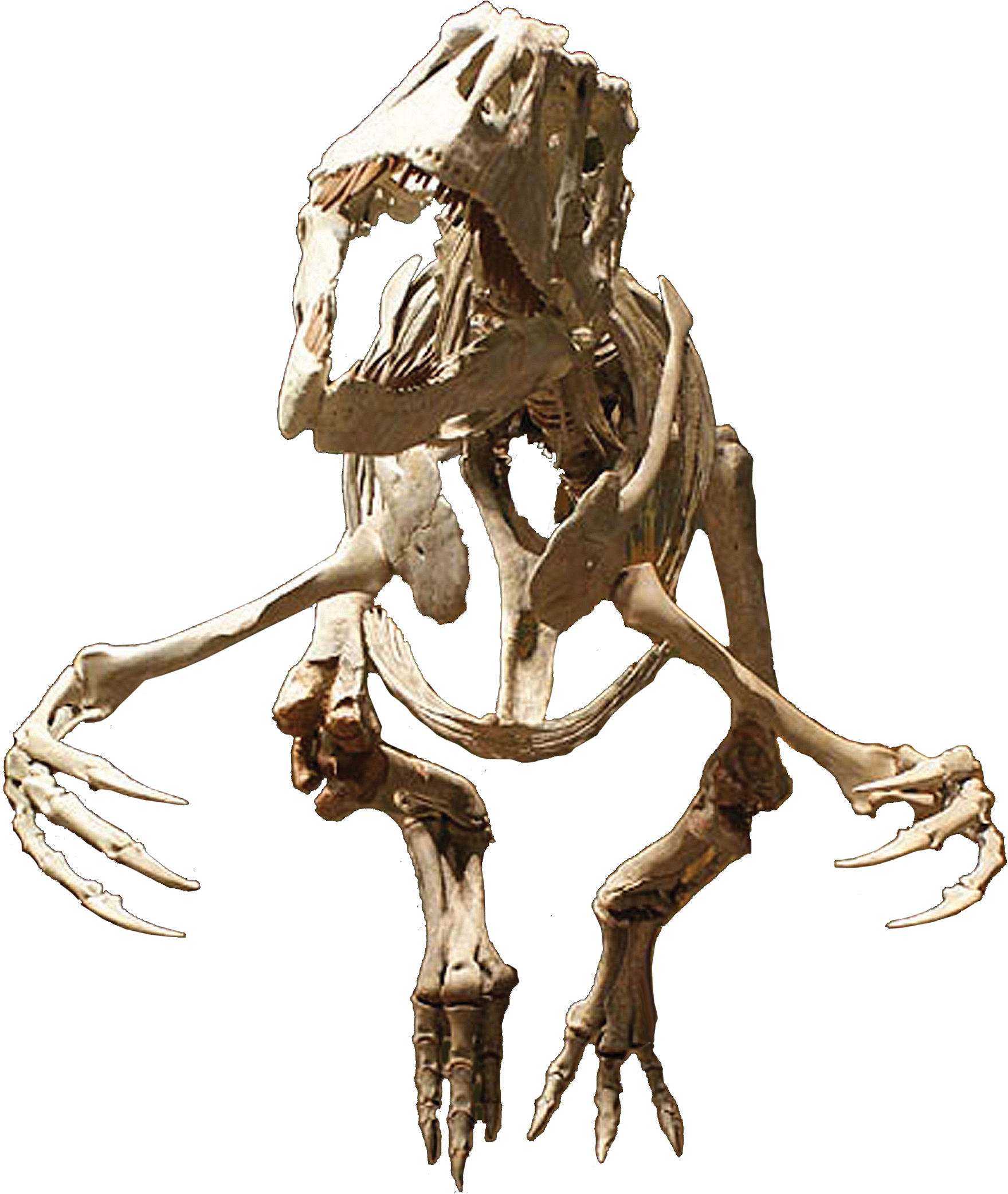 Appalachiosaurus montgomeriensis skeleton cast produced by Triebold Paleontology Incorporated